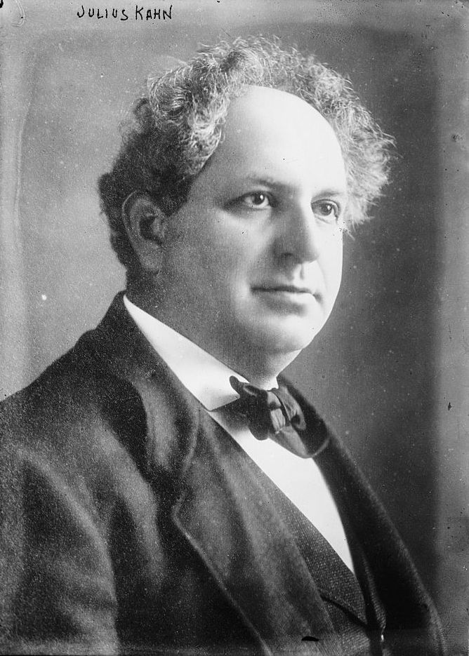 Julius Kahn, member of the U.S. House of Representatives (D-California).